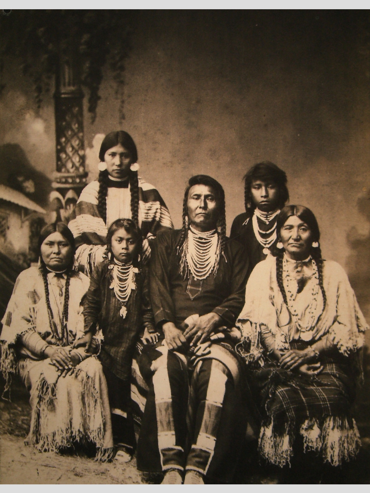 Description by museum: This photograph is historically significant and has great human interest as well. It may be the only extant copy in existence of F. M. Sargent's cabinet card of Nez Perce Chief Joseph and his family in Leavenworth where they were exiled from 1877 to 1885. Chief and his band of Nez Perce lived peacefully in the Wallowa Valley of Eastern Oregon until 1877 when the U.S. government decided to move the band to a small reservation in Idaho. When General O.O. Howard threatened a cavalry attack, a few dissatisfied warriors raided a settlement and killed several whites. Fearing retaliation, Joseph fled with his band of 700 men, women and children in a retreat towards Canada that covered 1400 miles. They finally gave up 40 miles from the Canadian border where Joseph uttered the famous words "From where the sun now stands, I will fight no more forever." Curator's statement: Look into Chief Josephs's face. What was he thinking and feeling at that moment? I believe this photograph is one of the most revealing portraits in our collection. You can see great dignity, pride, intelligence, and sadness in Joseph's face and body language as well as tension, and perhaps some anger. - Elaine Miller